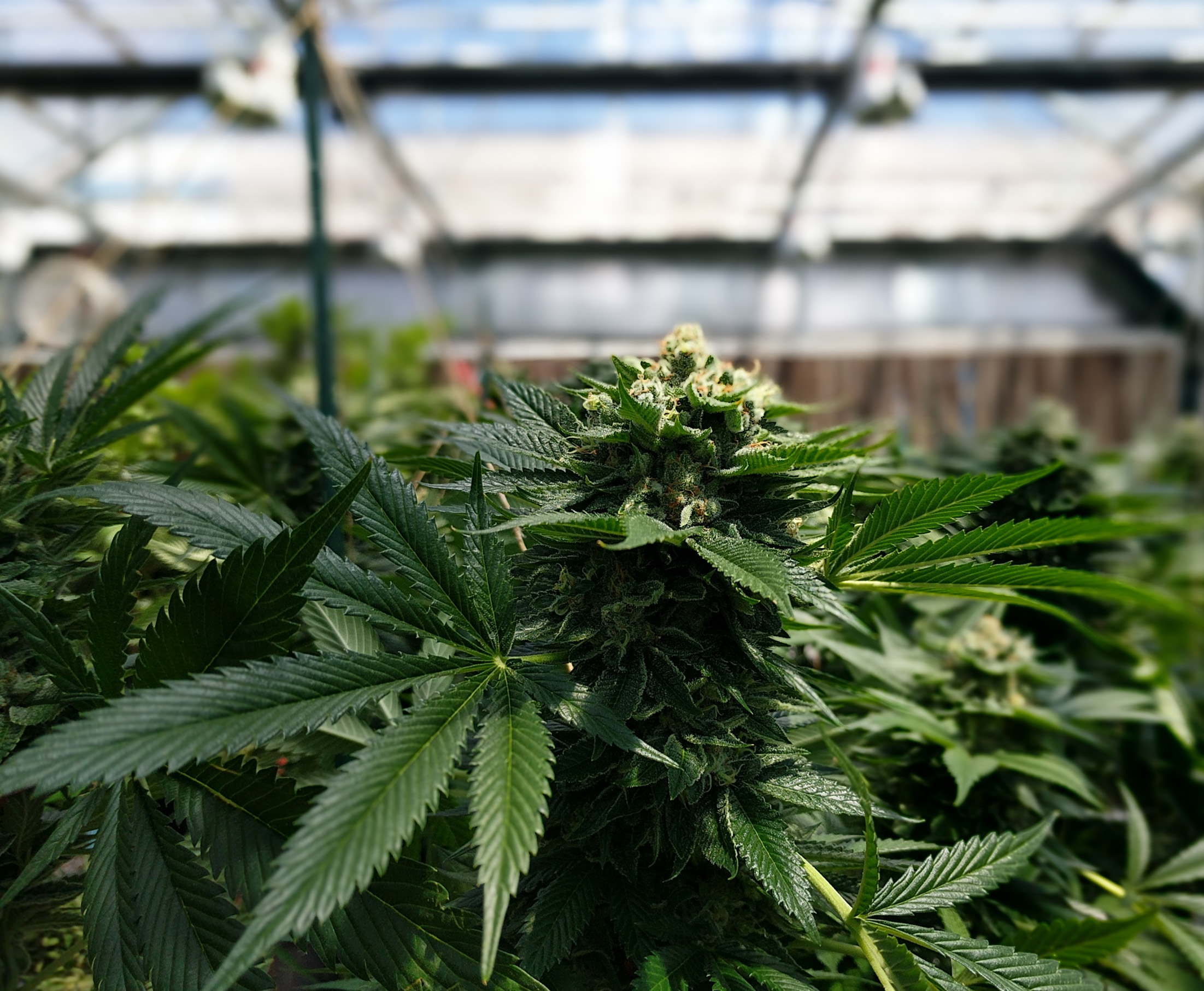 Cannabis plant in bloom in the Euflora greenhouse, as seen during a cannabis grow facility tour.